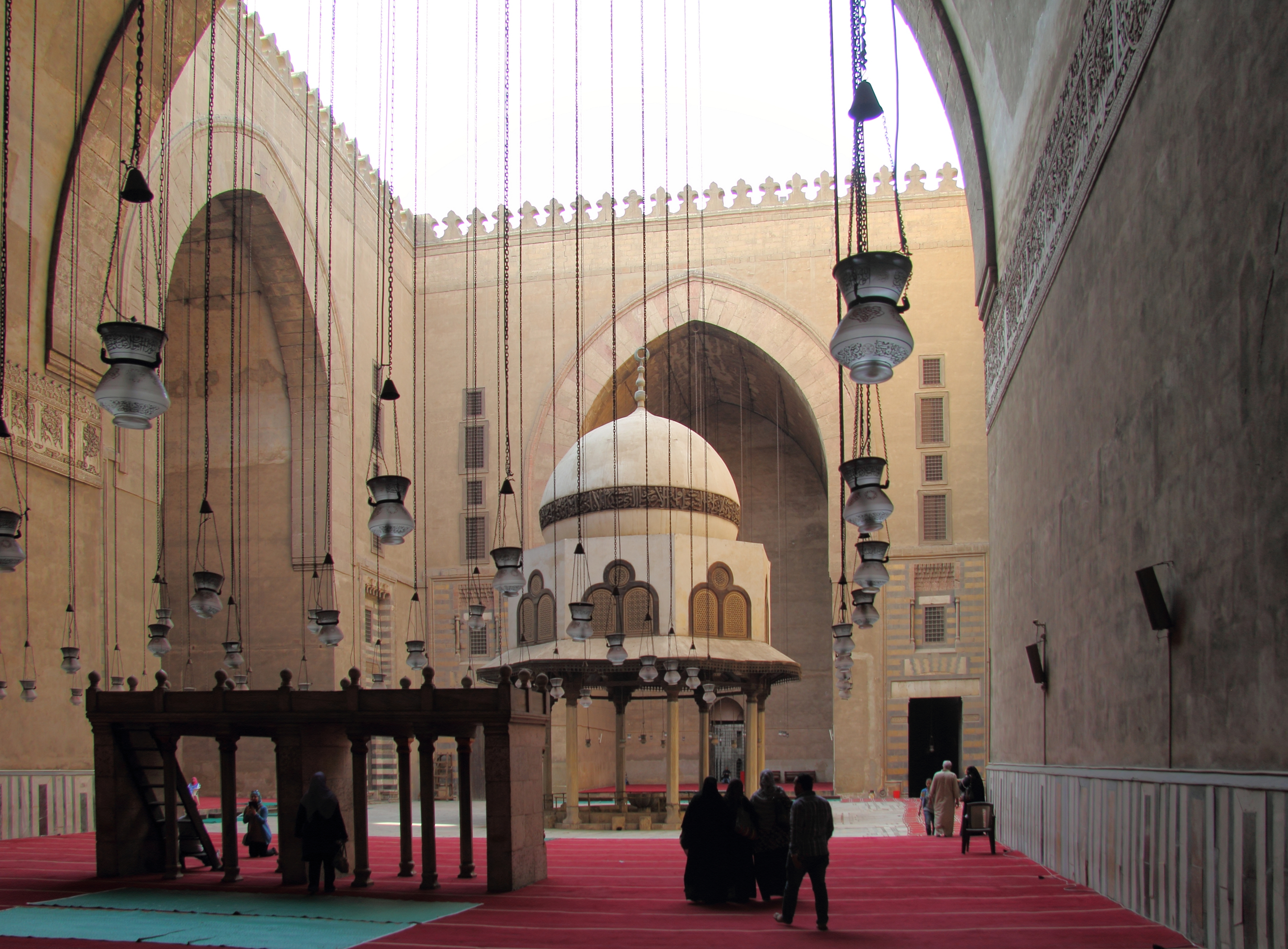 Cairo, Egypt: Mosque-Madrassa of Sultan Hassan